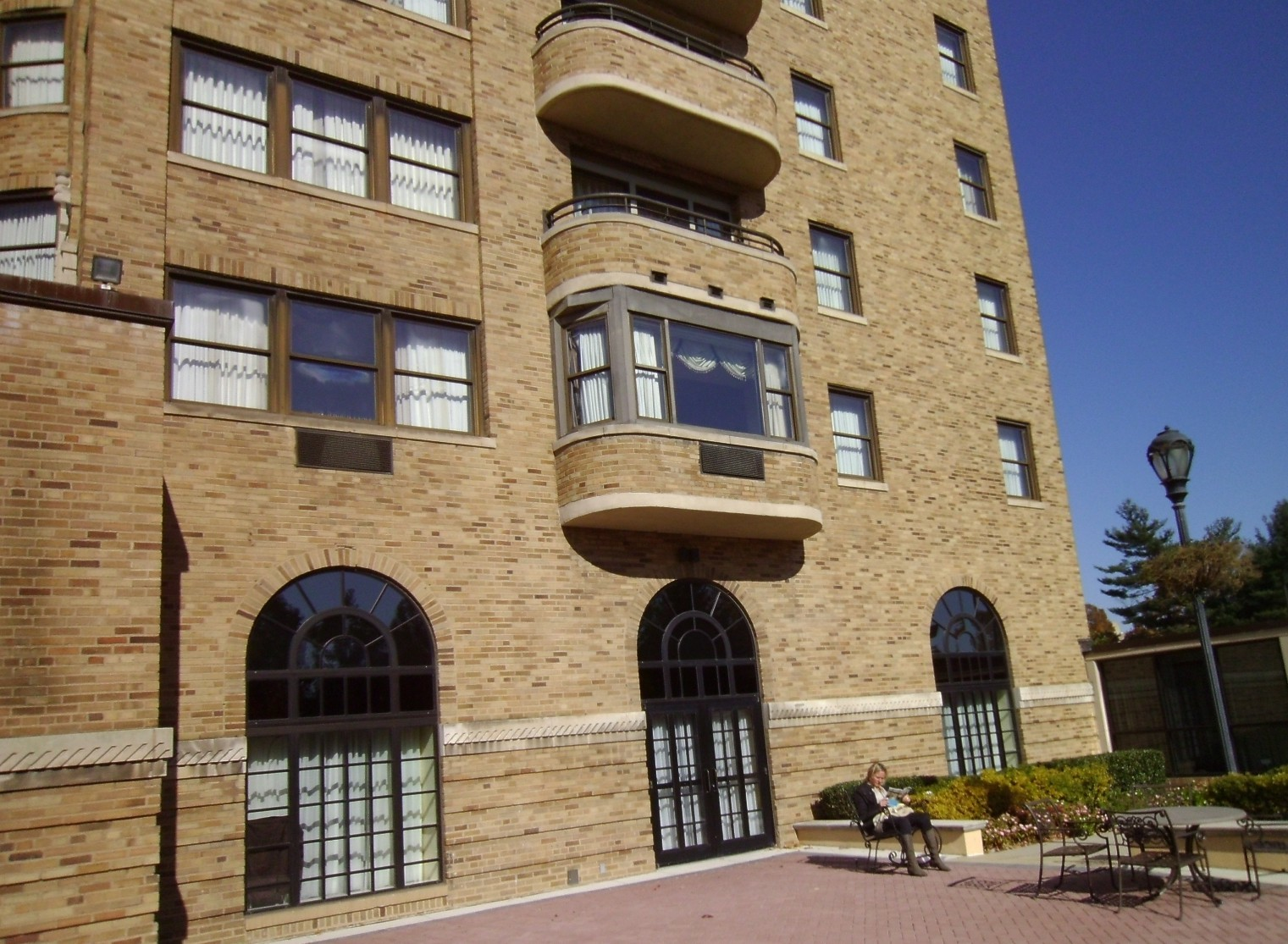 Roosevelt Suite at the Omni Shoreham Hotel